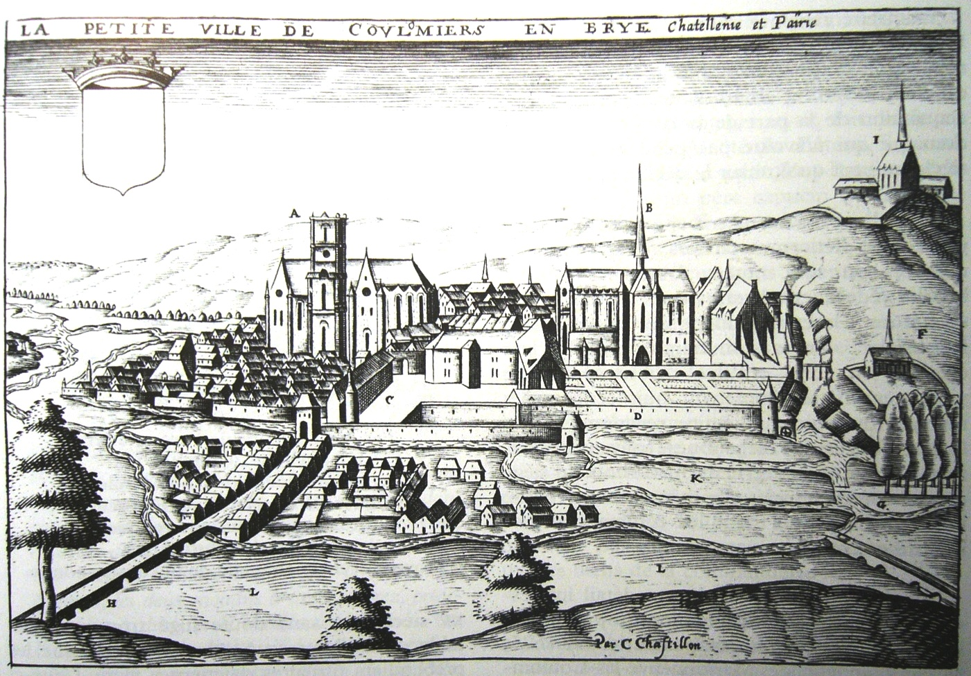 Ancient etching of the town of Coulommiers by Claude Chastillon